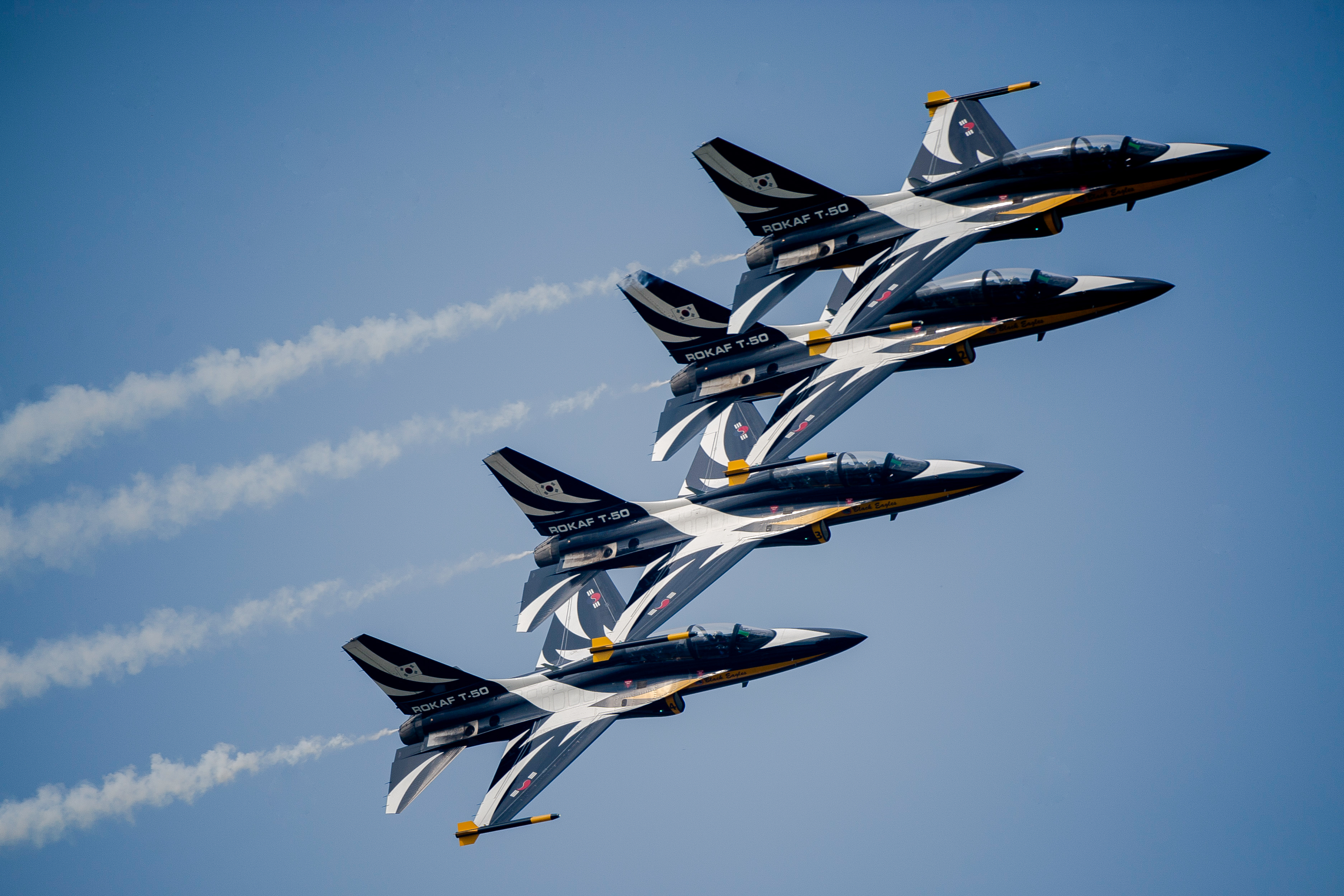 Republic of Korea air force Black Eagles fly in formation during Air Power Day 2016 on Osan Air Base, Republic of Korea, Sept. 25, 2016. Air Power Day was a two-day event that highlighted the partnership between the Republic of Korea and the U.S. military. (U.S. Air Force photo by Staff Sgt. Jonathan Steffen)